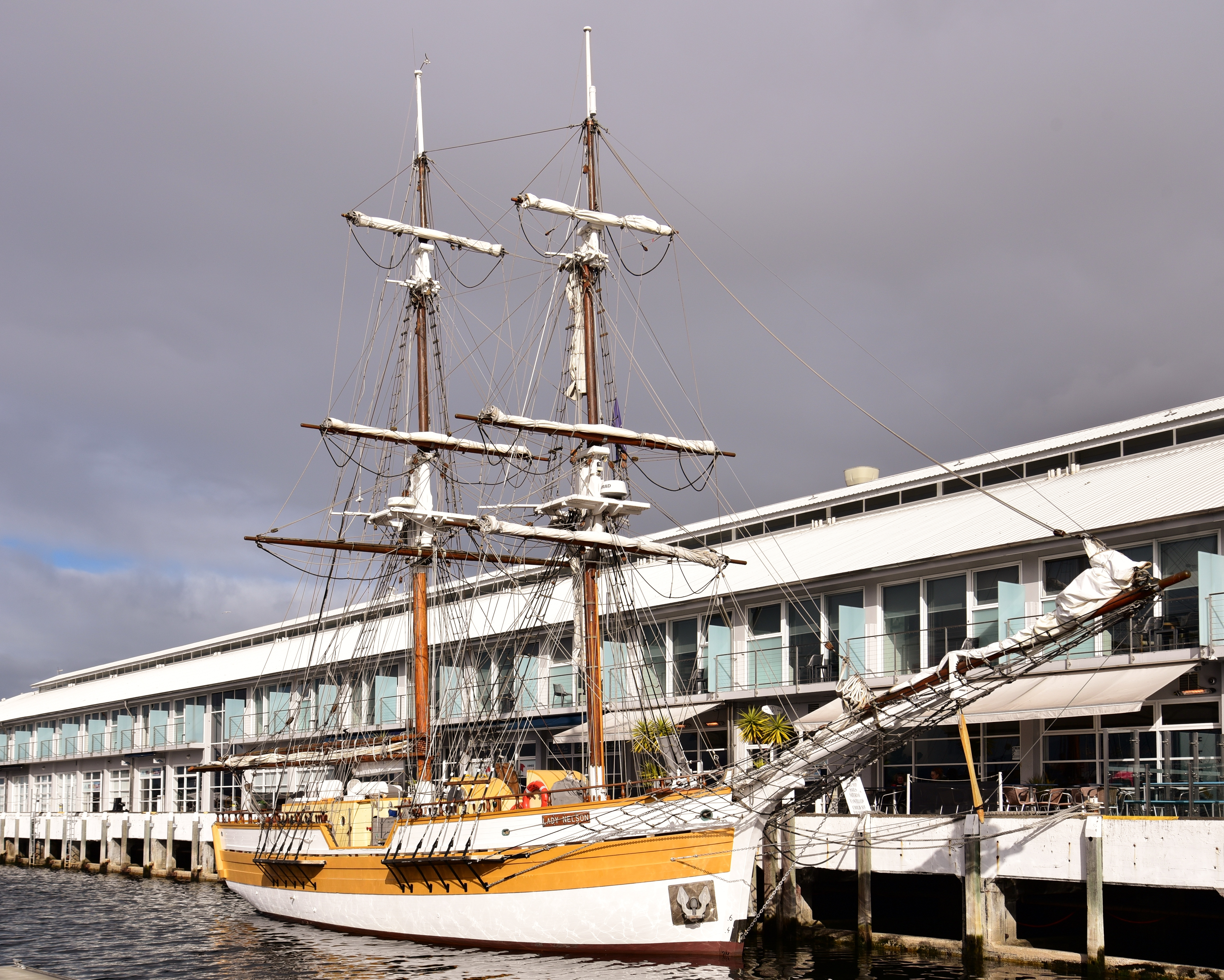 View of the replica of the brig HMS Lady Nelson (1798) berthed at Elizabeth Street Pier, Hobart, Tasmania